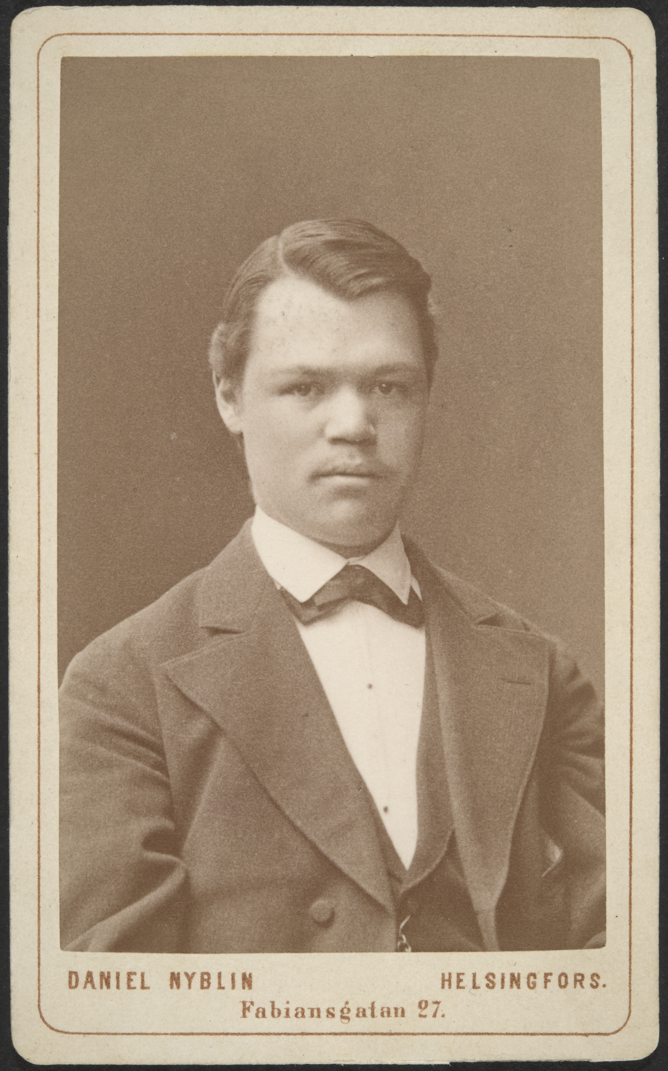 Photograph of the Finnish geographer Ragnar Hult (1857–1899).